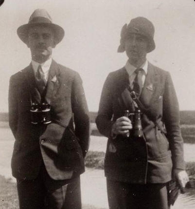 A Landsborough Thompson and his wife